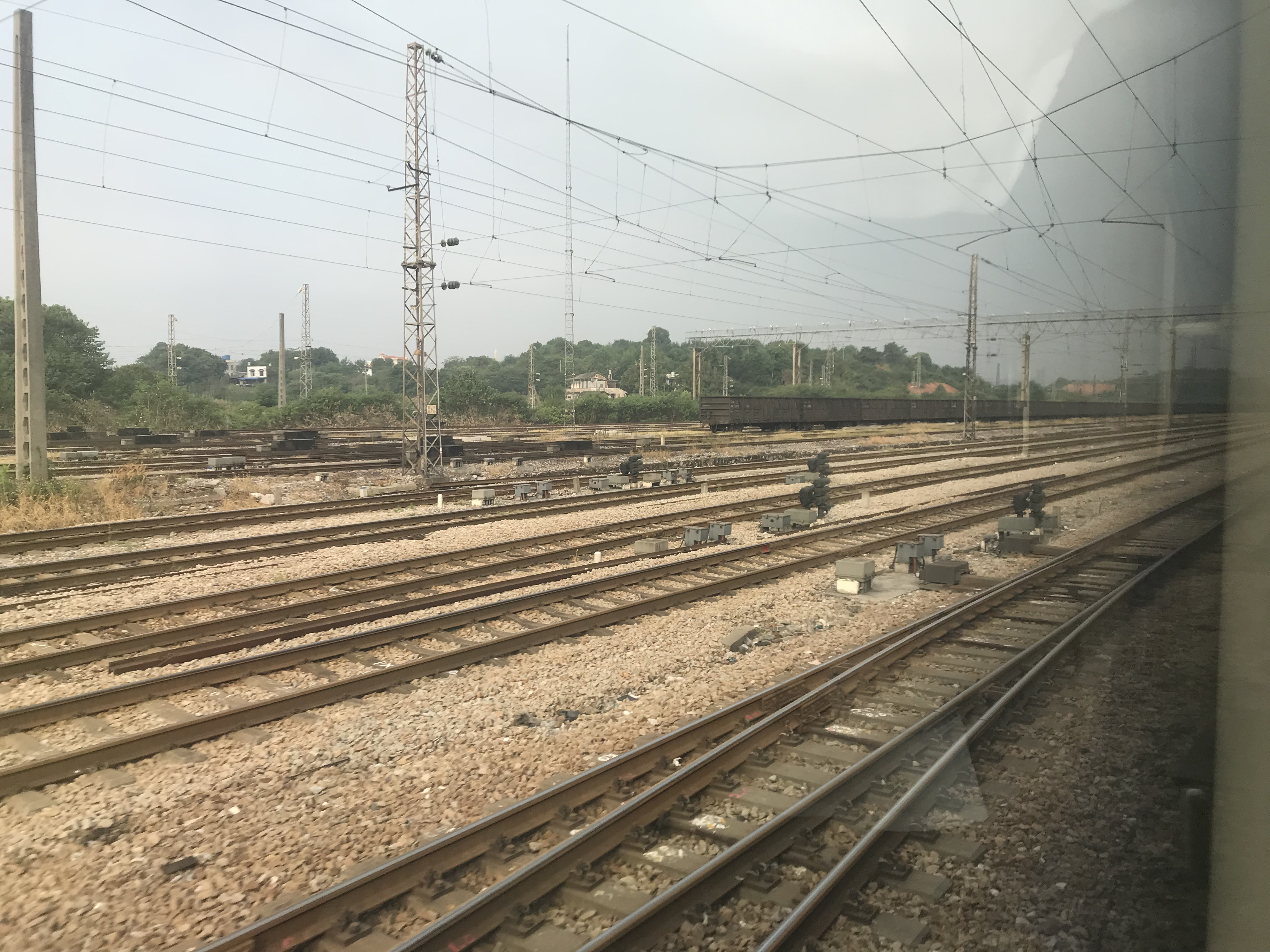 201908 Shunting Yard of Xiangtandong Station